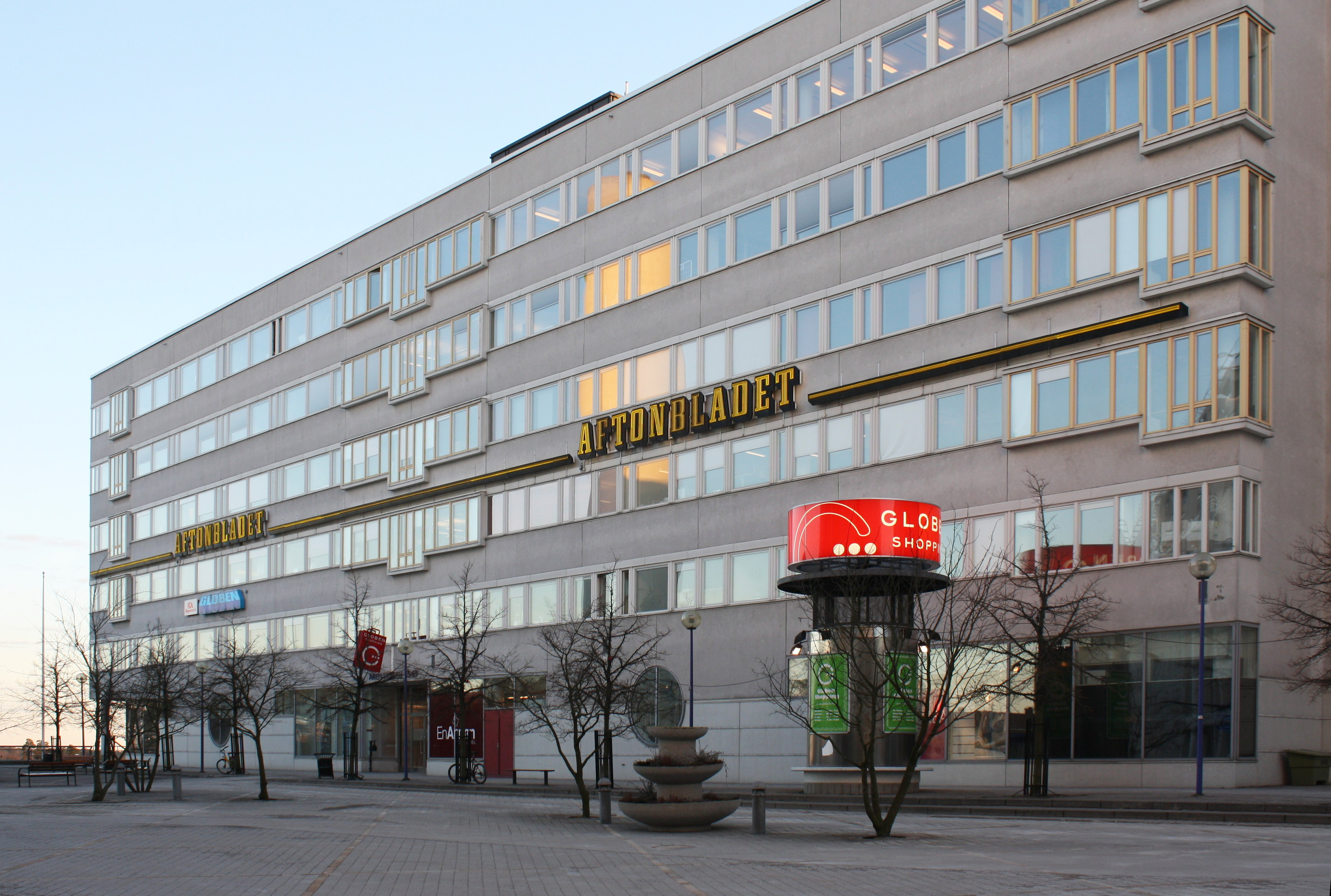 The tabloid Aftonbladet's headquarters in Stockholm.